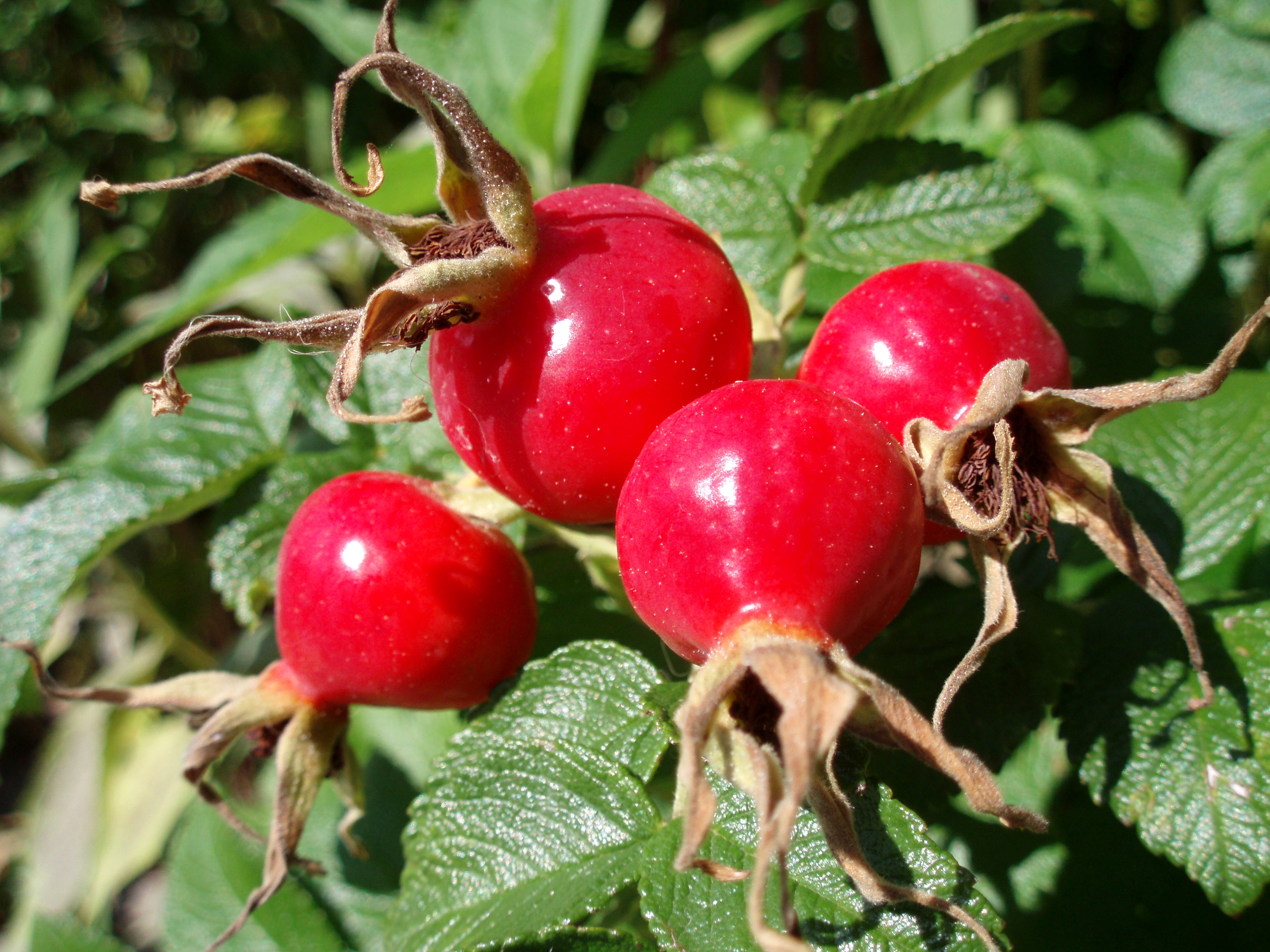 Some rose hips in close-up